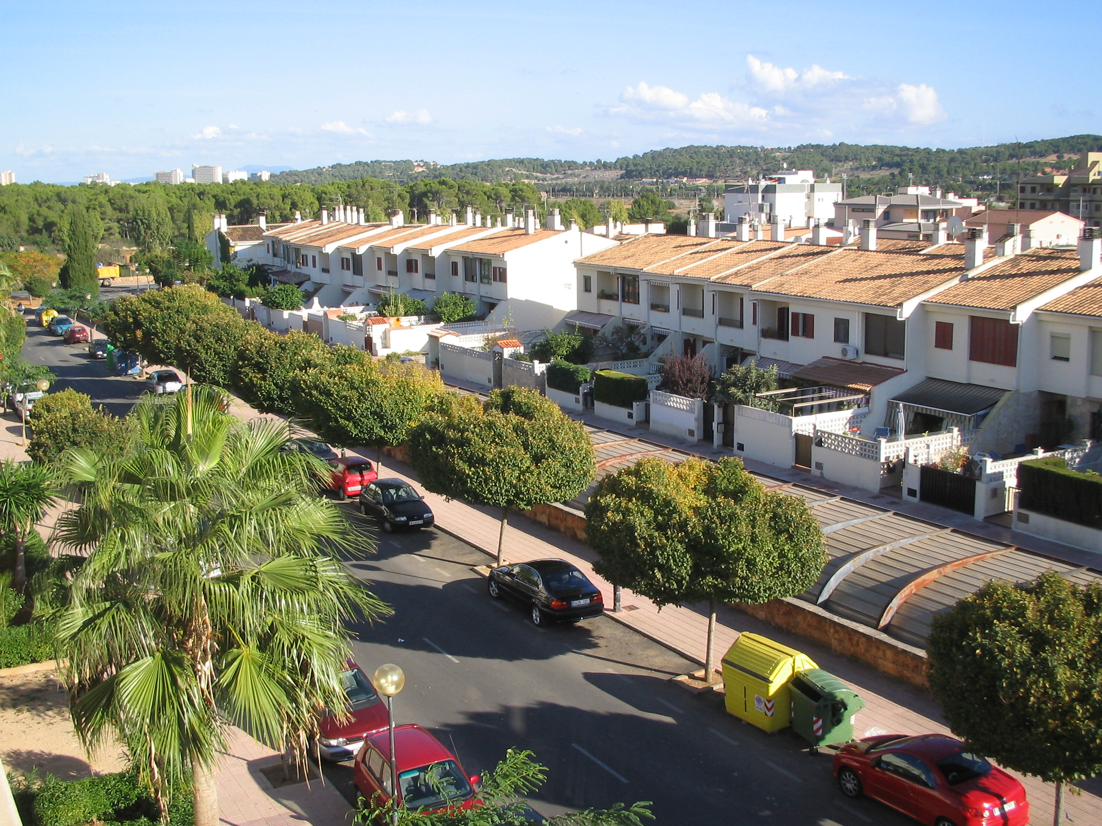 A spanish town called Son Ferrer in mallorca.